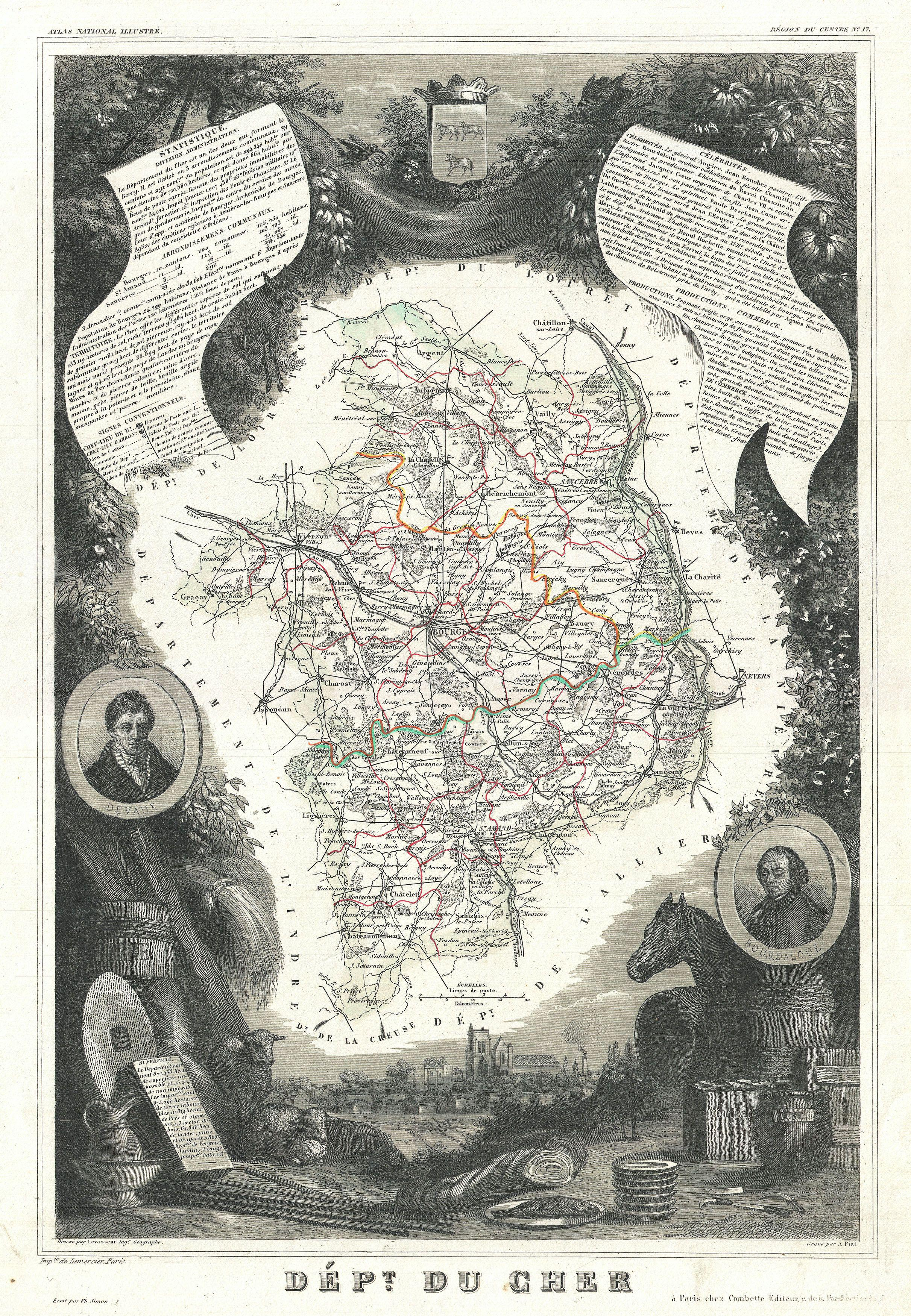 This is a fascinating 1857 map of the French department of Cher, France. This area of France is known for its production of Selles Sur Cher, a goats-milk cheese. The whole is surrounded by elaborate decorative engravings designed to illustrate both the natural beauty and trade richness of the land. There is a short textual history of the regions depicted on both the left and right sides of the map. Published by V. Levasseur in the 1852 edition of his Atlas National de la France Illustree.